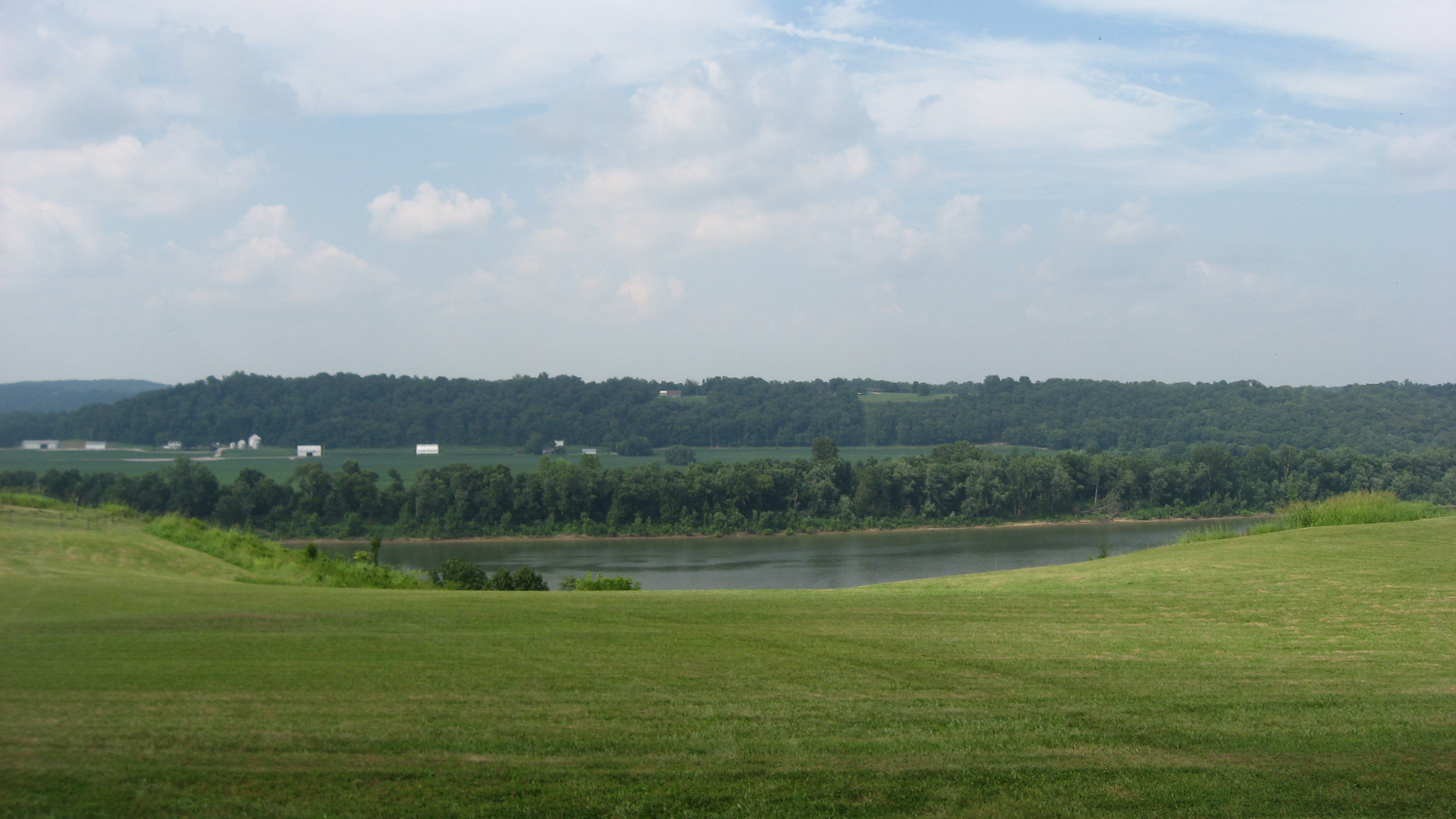 Land along the Ohio River east of Mauckport in Heth Township, Harrison County, Indiana, United States, seen from Brandenburg on the Kentucky side of the river.